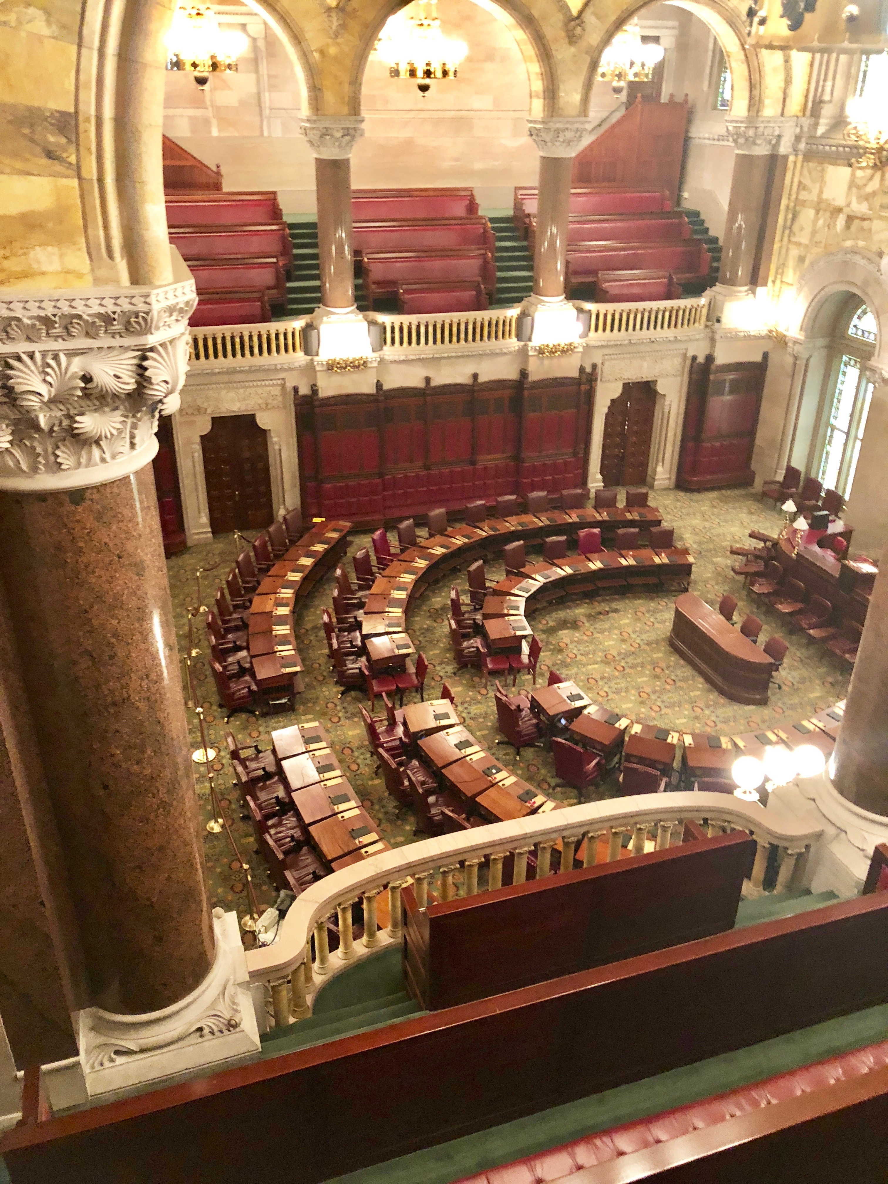 Senate Chamber at New York State Capitol, Albany in October, 2018